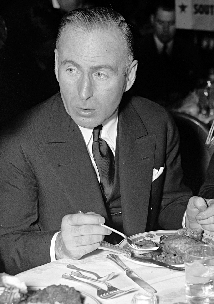 Robert E. Quinn, Governor of Rhode Island